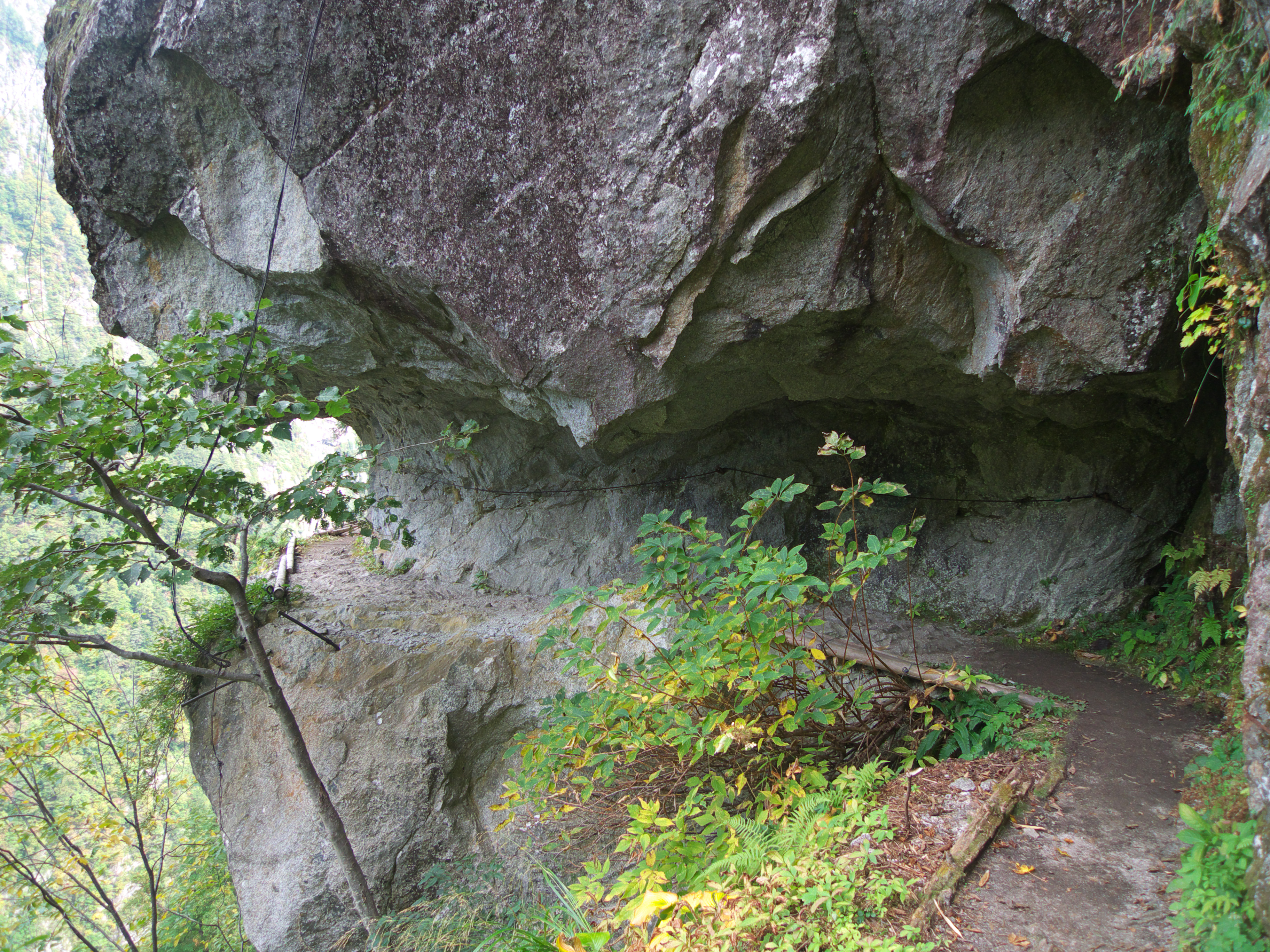 Suihei hodo ("flat trail" or "horizontal trail") in Kurobe City, Toyama Prefecture, Japan. The trail runs for about 13 kilometres along the upper part of Kurobe River, and some 300 metres above the river bed. Taken near Odaiko lookout point